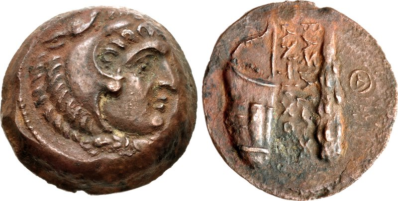 Antiochos I Soter Ai Khanoum mint